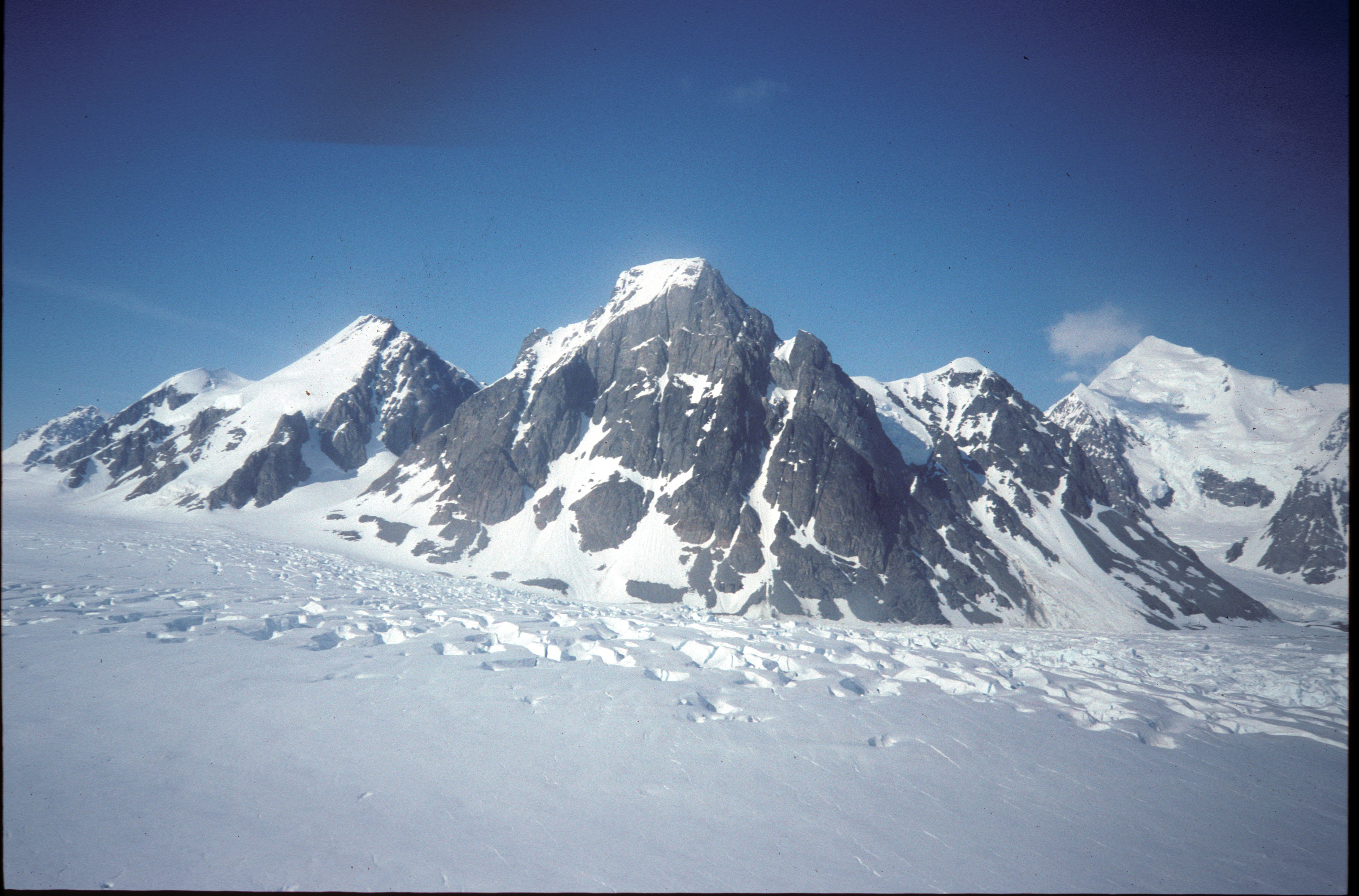 Mount Breaker is a mountain with double summits, the eastern summit being, at 880m, the highest on Horseshoe Island, off Graham Land.